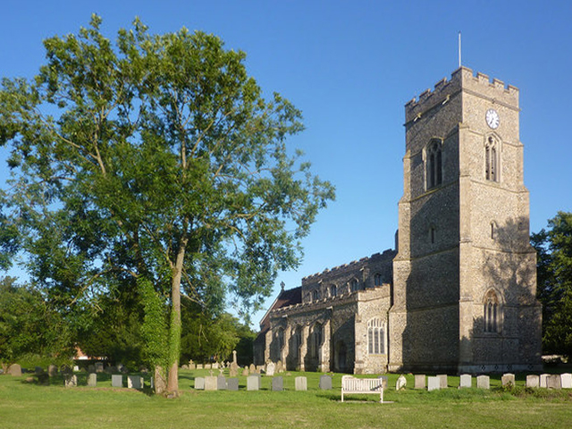 All Saints Church, Lawshall Seen from the northwest of the churchyard.